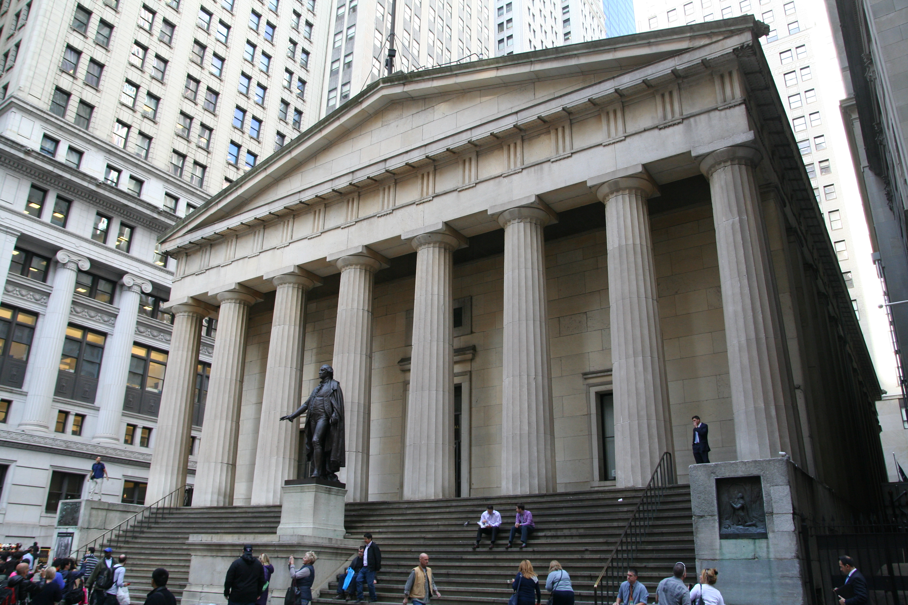 Federal Hall and George Washington statue in New York City